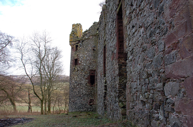 North wall of Drochil Castle The castle dates from c 1578. The oval holes in the projecting wall of the tower are gun loops through which a weapon could be aimed to protect against invaders. A ground-floor plan of the castle and section drawings showing the layout of a gun-loop are given in 'Exploring Scotland's Heritage, Lothian and the Borders', HMSO Edinburgh 1985, by John R Baldwin.